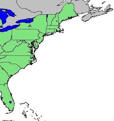 East Coast